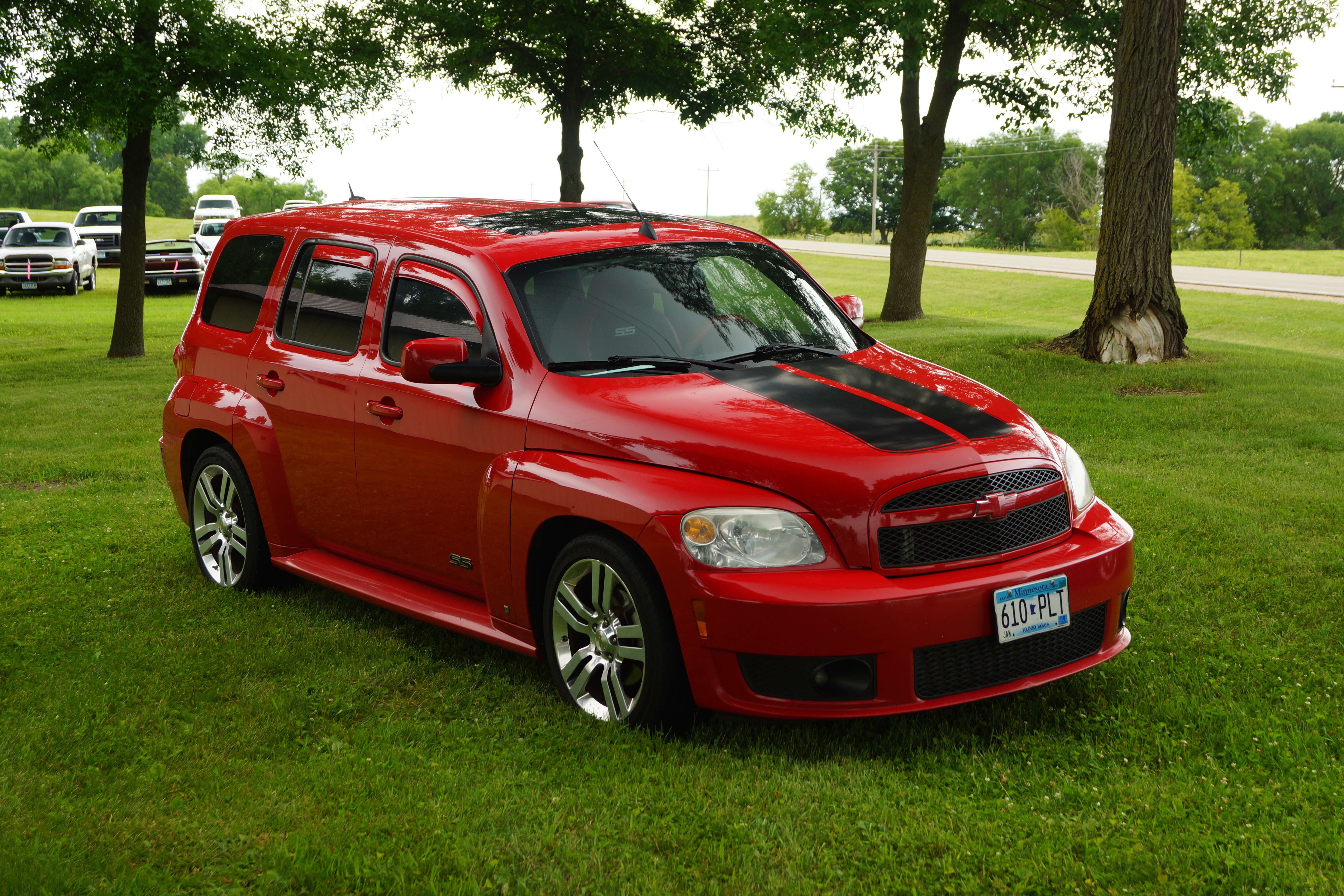 Rohner's Auto Parts 4th Annual Car Show & Customer Appreciation Day Willmar, Minnesota July 2017 My Dad used to bring along as he would get parts for the family car. As a little car freak, I loved running around checking out all of the different cars. I bought my first car before I had my license and I had to make many trips to Rohner's to get that car road ready before I passed my road test at 16, I have been going there ever since and bringing friends along and getting them hooked as well. It was a great day and I heard many great experiences people had finding parts to fix their cars. I feel all of us should throw them an appreciation party. Click here for previous Hastings Cruise Night pictures.. Click here for more car pictures at my Flickr site. Or here for my Car Crazy Tumblr site. Or on Twitter @DVS1mn.